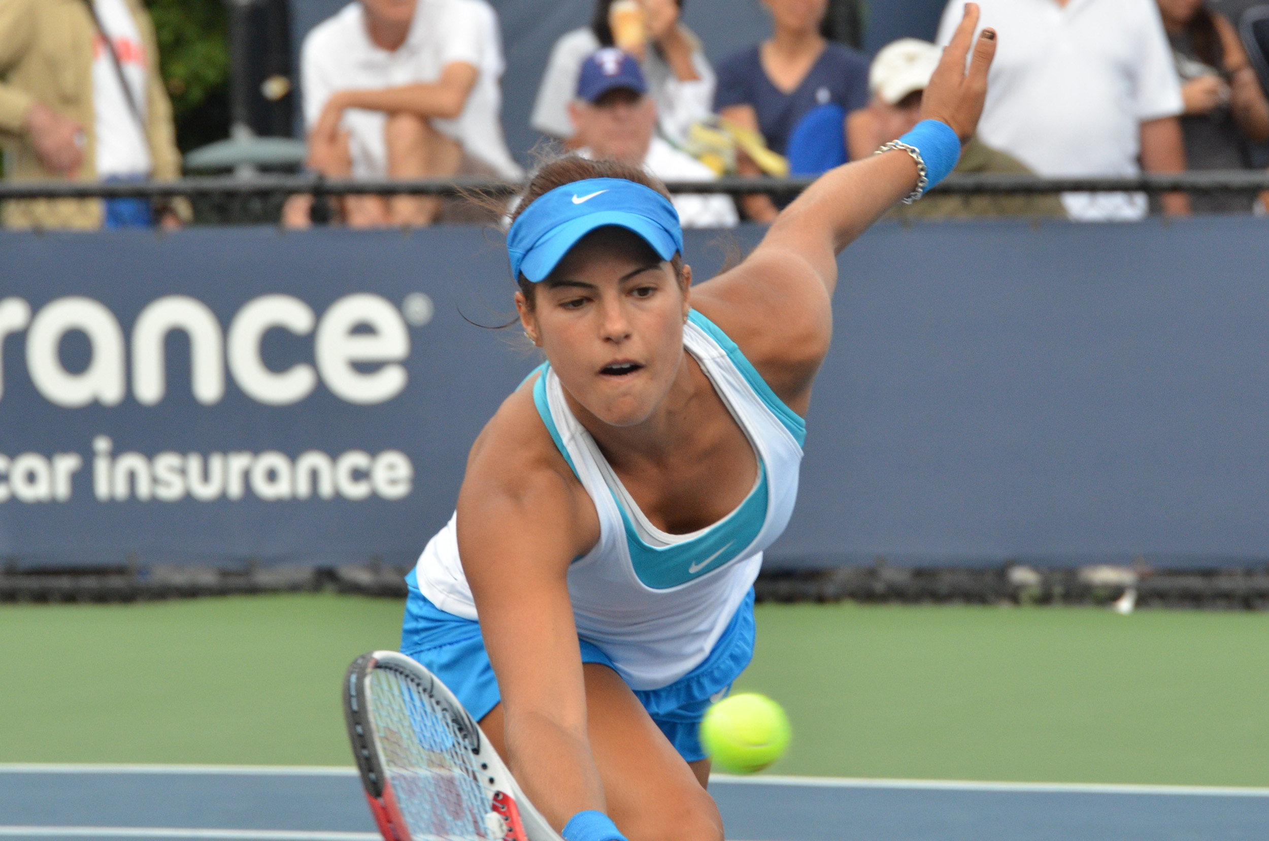 Lauren Albanese at the 2011 US Open qualifying tournament